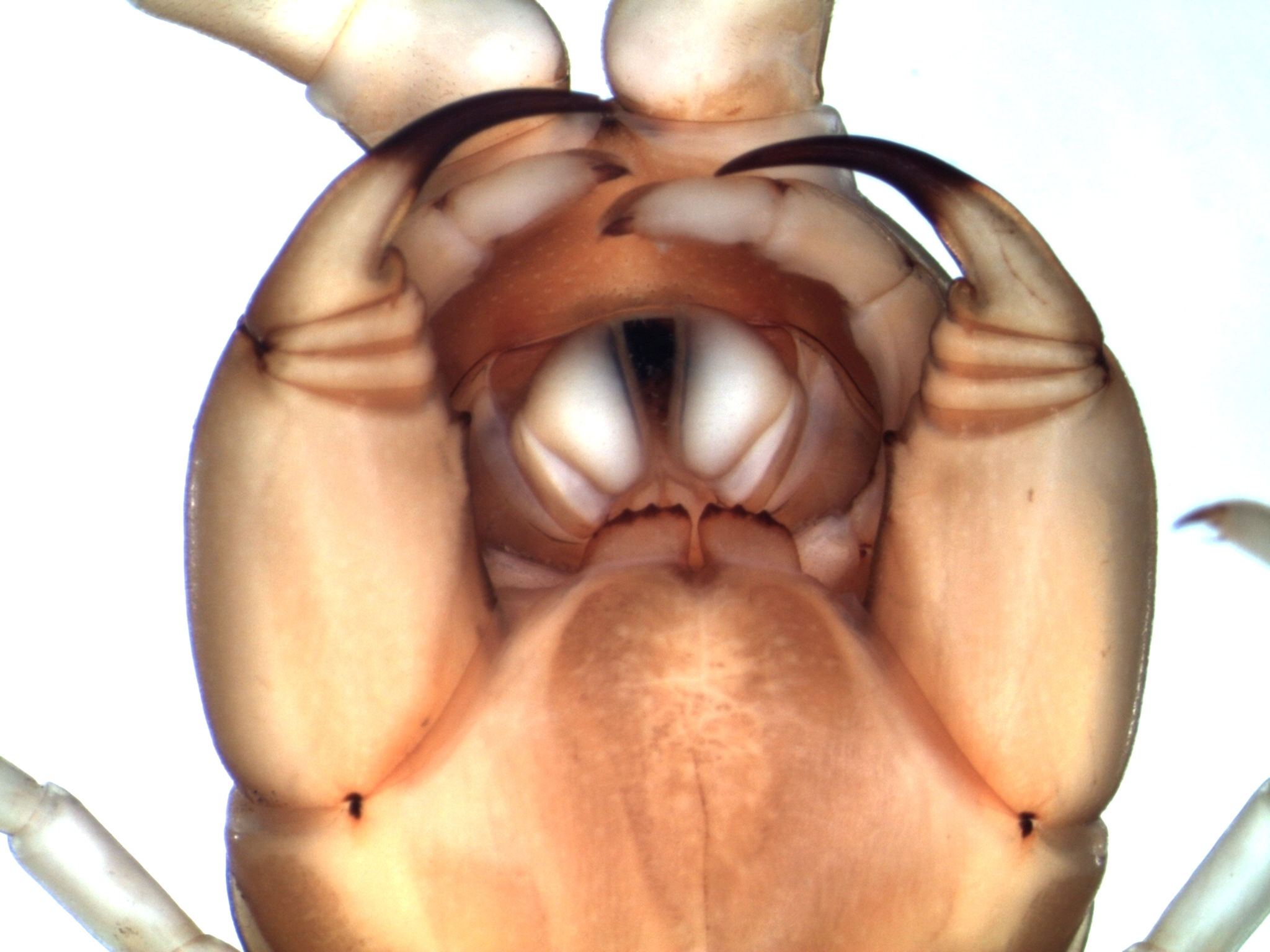 Plutonium zwierleini, anterior part, ventral, Trecastagni, photo Lucio Bonato